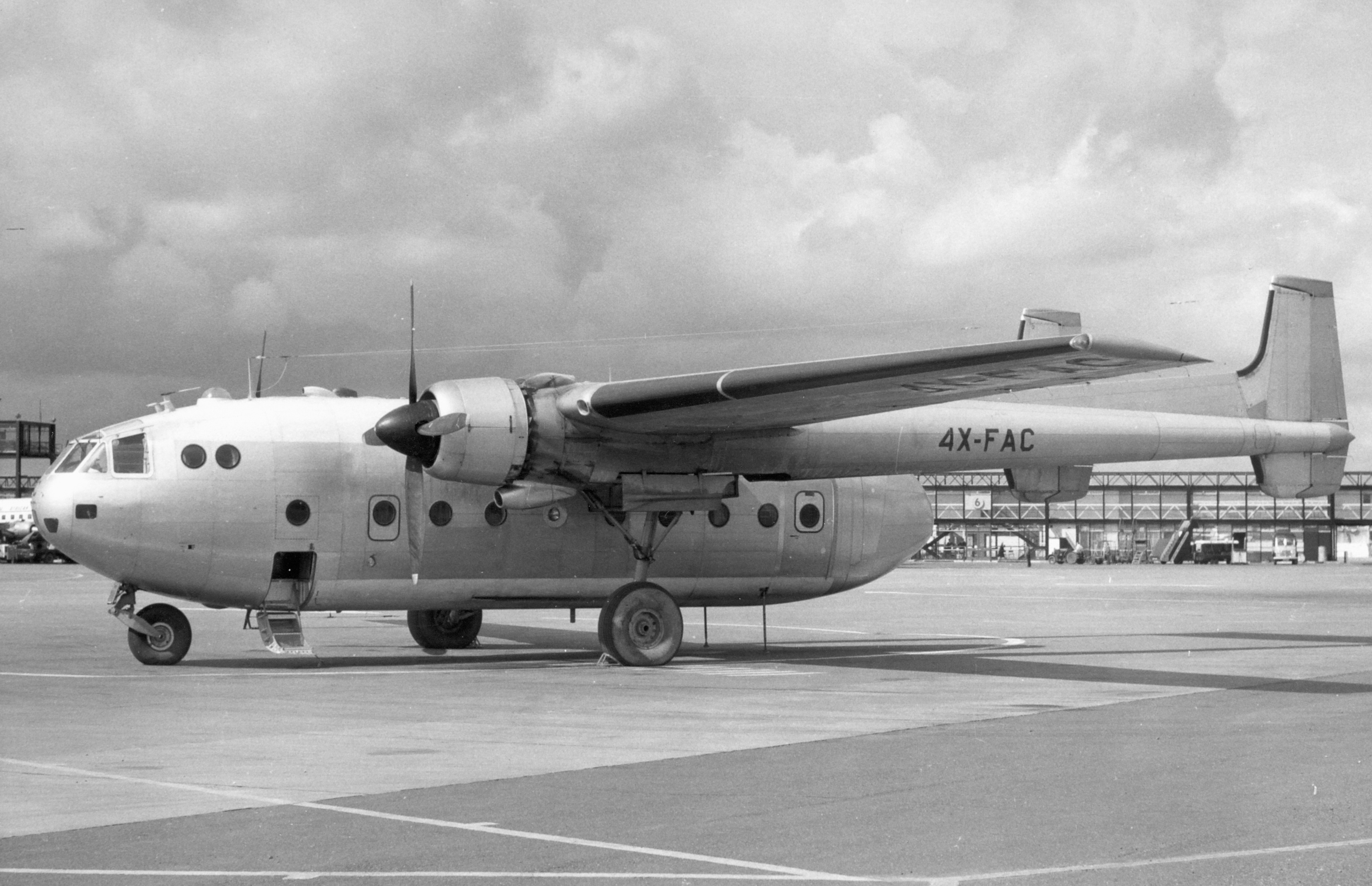 4X-FAC, Nord 2501 Noratlas of the Israeli Air Force (c.n 134 Ex. GAF 043), at Gatwick.